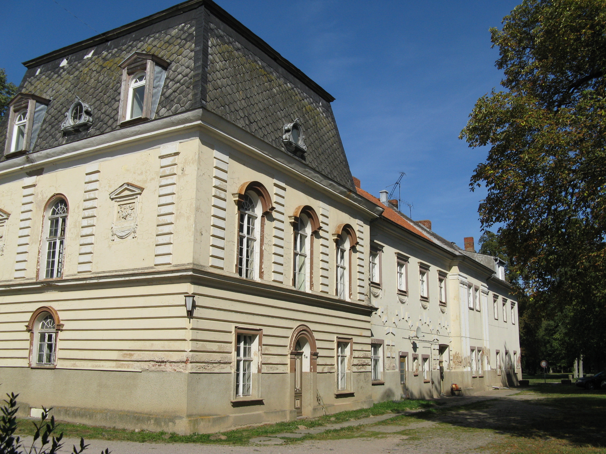 Only kept nothern part of Remplin castle in Remplin, disctrict Demmin, Mecklenburg-Vorpommern, Germany